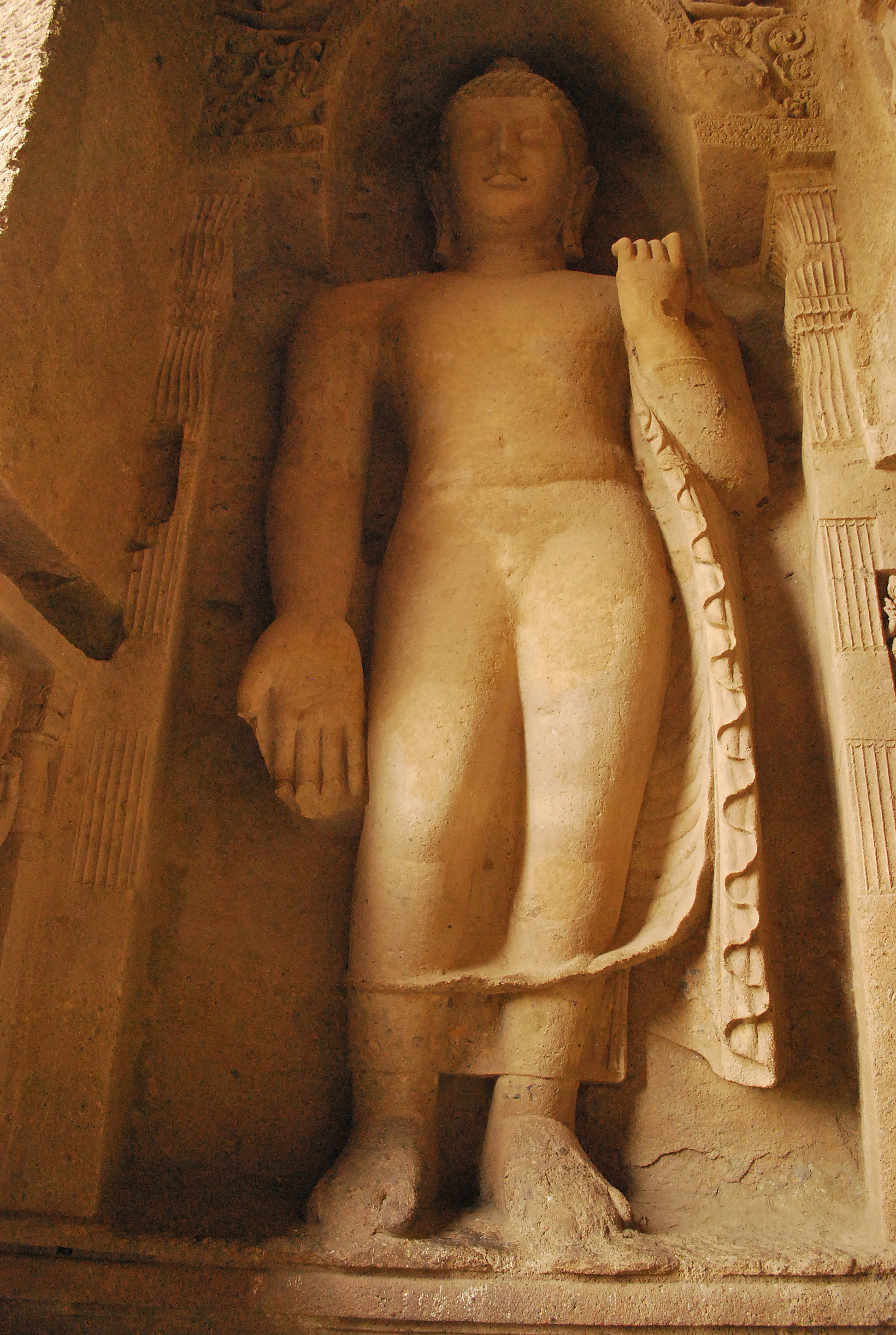 Buddhist Caves